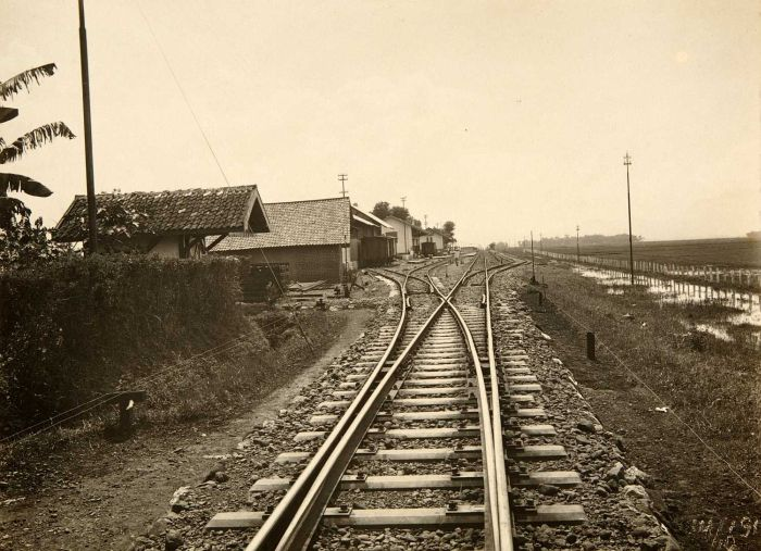 The railway station at Rancaekek